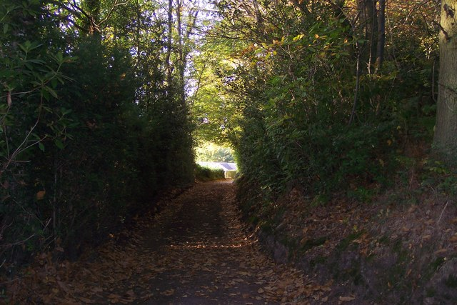 Track from Quarry Cottage towards Ide Hill This track leads from a cottage in Stubb's Wood towards the B2042 Wheatsheaf Hill. Also used by the Greensand Way (long distance path) leading to Ide Hill from Goathurst Common.